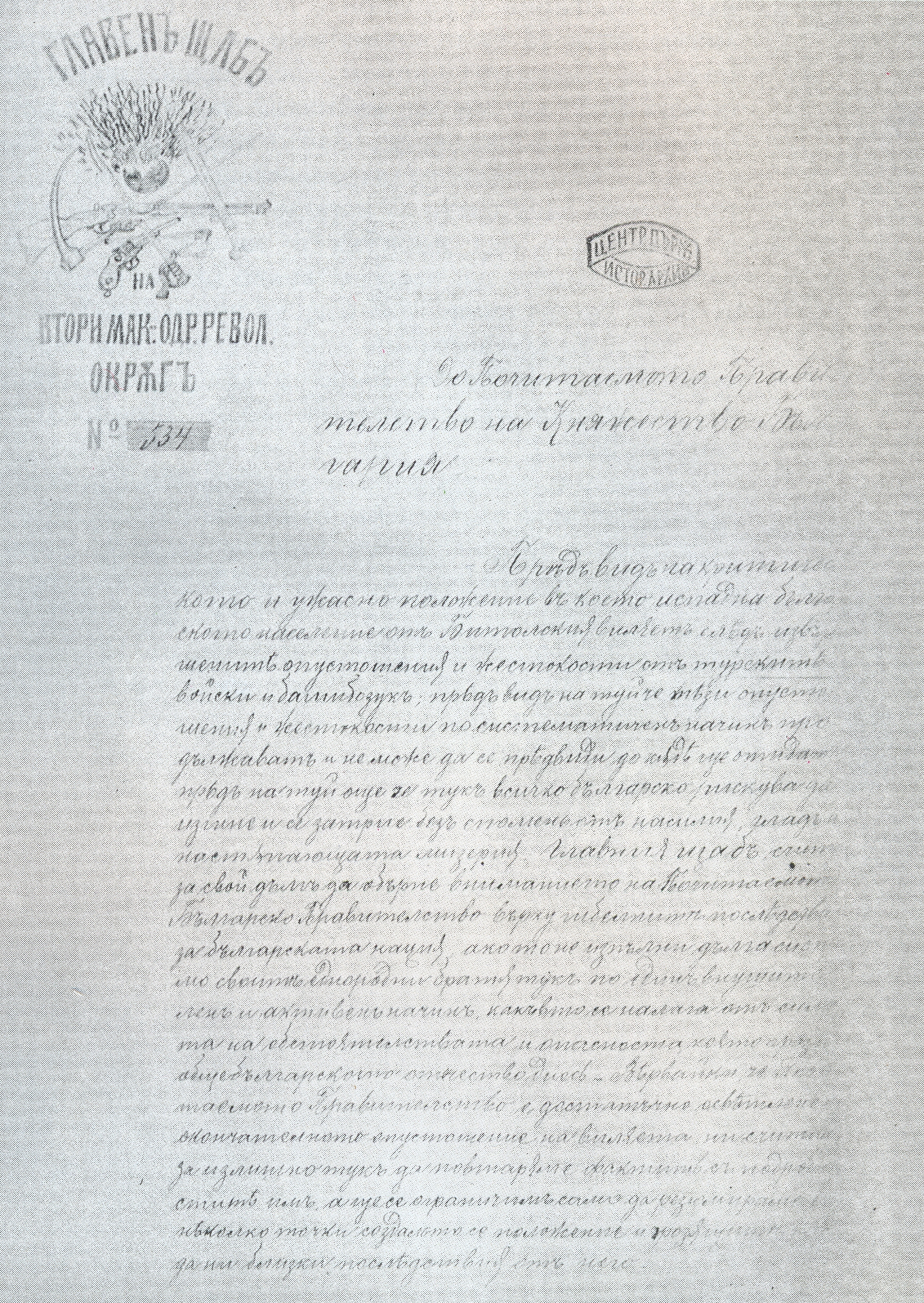 Letter from the headquarters of Ilinden Uprising Bitola revolutionary region to the government of Bulgaria, September 9th, 1903 (first page)